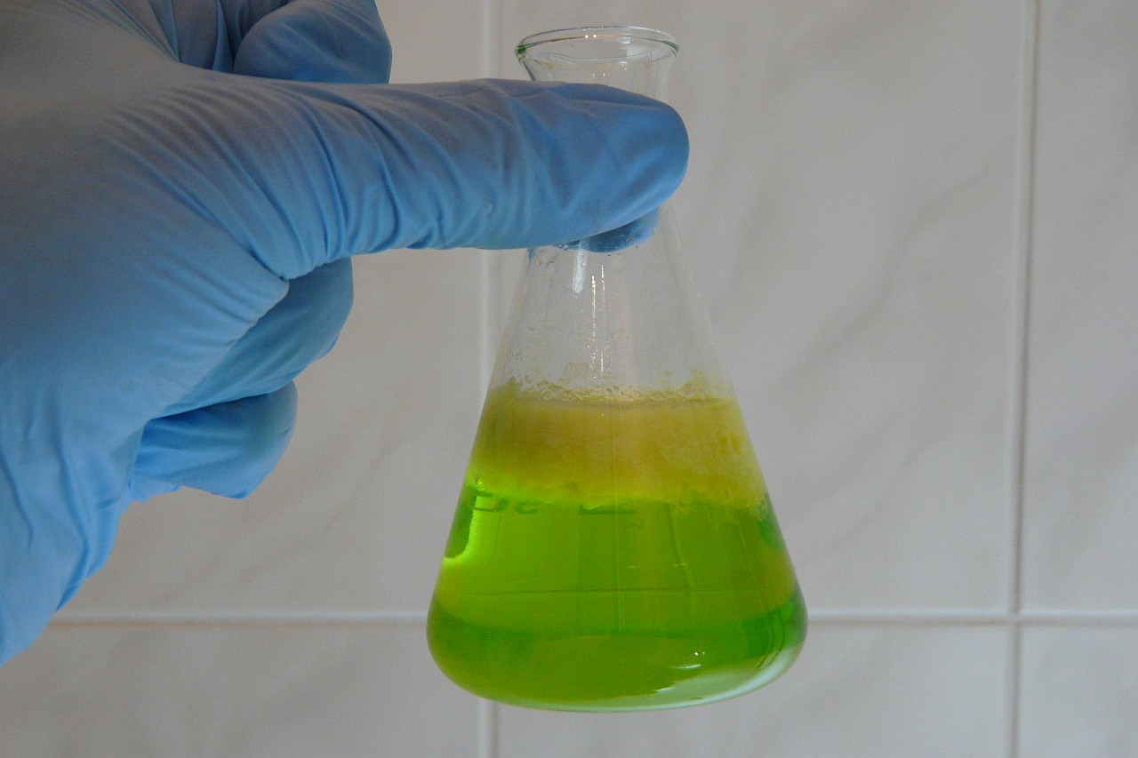 precipitation of uranylcarbonate